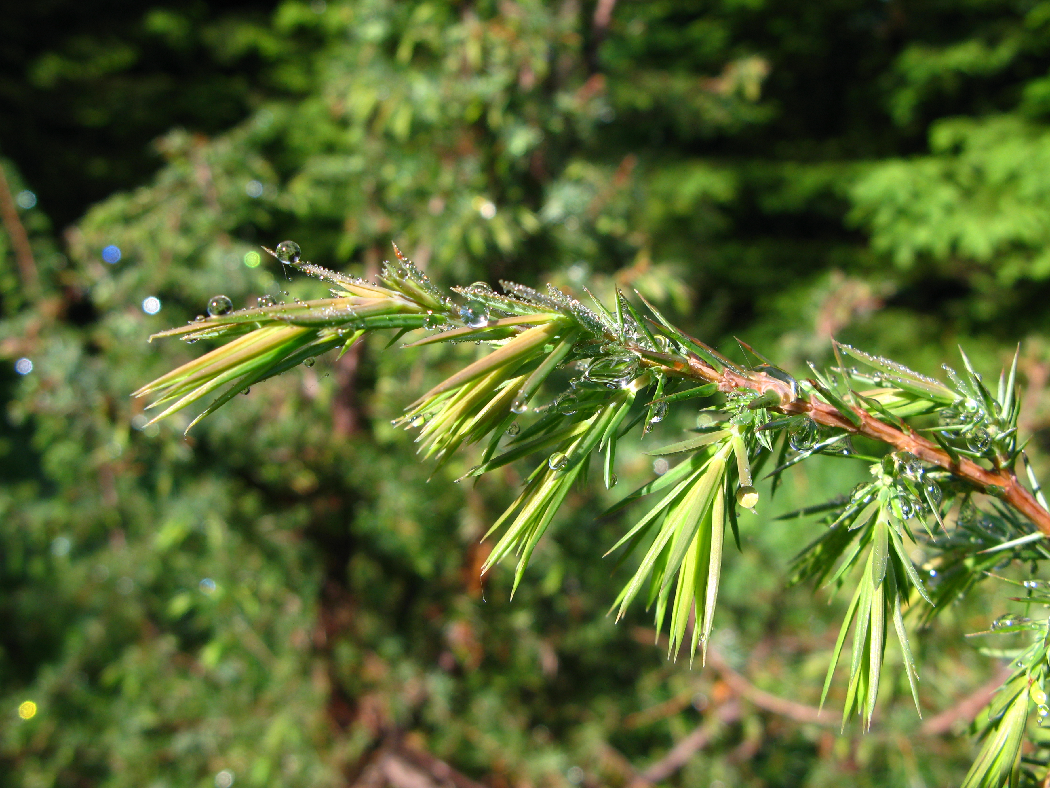 Young shoots on Juniperus communis in Malá Fatra, Slovakia